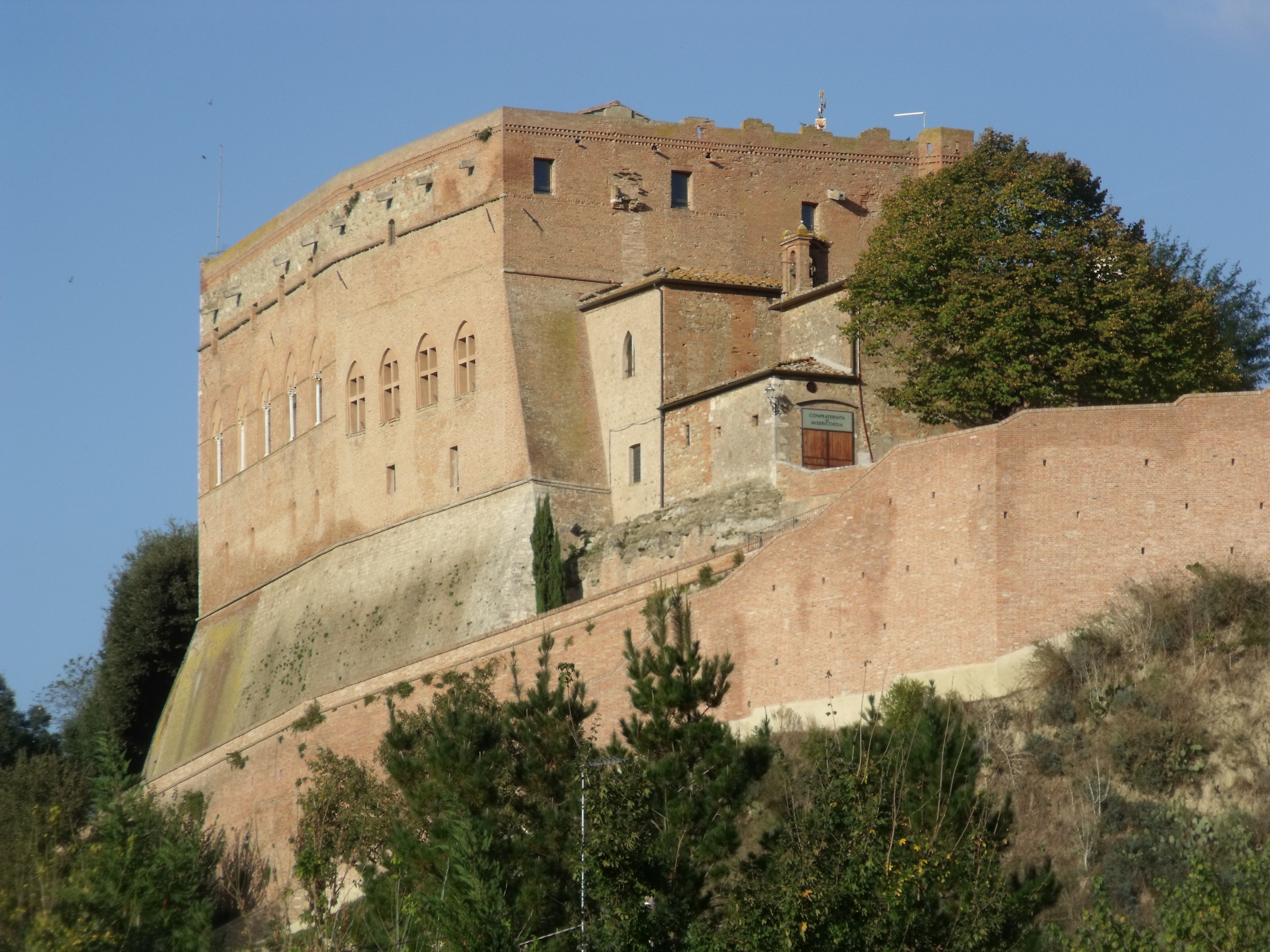 The Castle of San Giovanni d’Asso, seen from South, Crete Senesi, Province of Siena, Tuscany, Italy